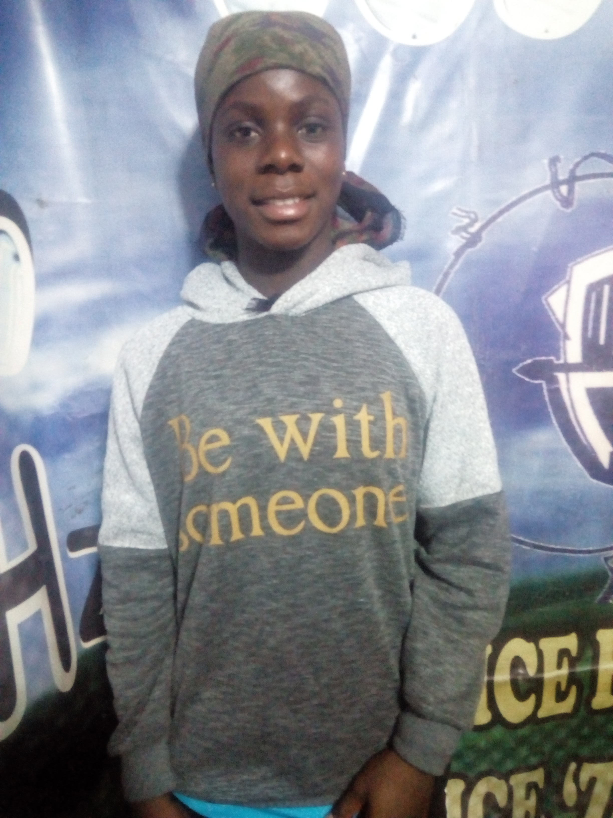 2018 FIFA women's under 17world cup golden ball winner.